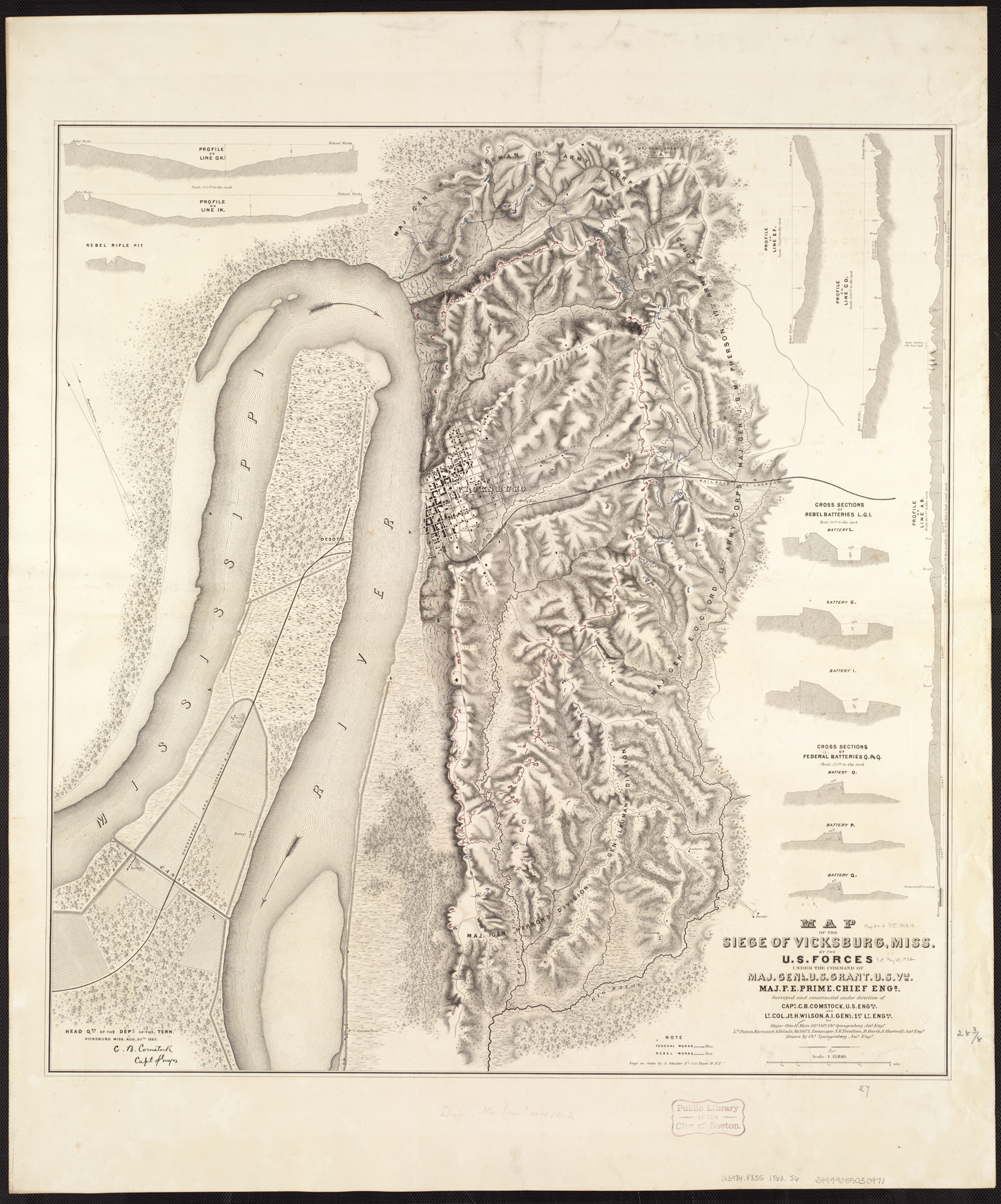 Zoom into this map at . Author: Spangenberg, Charles Date: 1863 Location: Vicksburg (Miss.) Dimension: 74x70cm Scale: ca. 1:17,000 Call Number: G3984.V8S5 1863 .S6